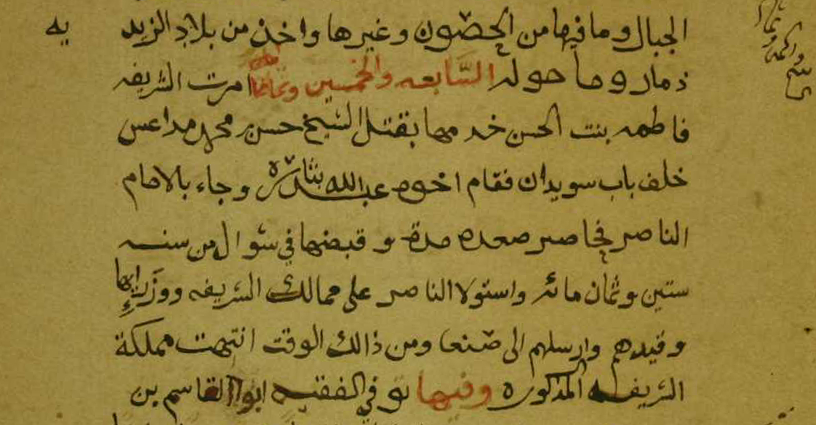 Excerpt from the book “Aqiq Yamani” by Abdullah bin Ali al Numan al Dhamadi with a message about Sharifa Fatima.